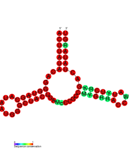 Secondary structure and sequence conservation image for MFR non coding RNA (RF01510). Nucleotide colouring indicates sequence conservation between the members of this family.